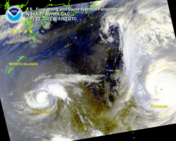 Typhoons Fengshen and Fung-wong in the northwest Pacific Ocean on July 22, 2002